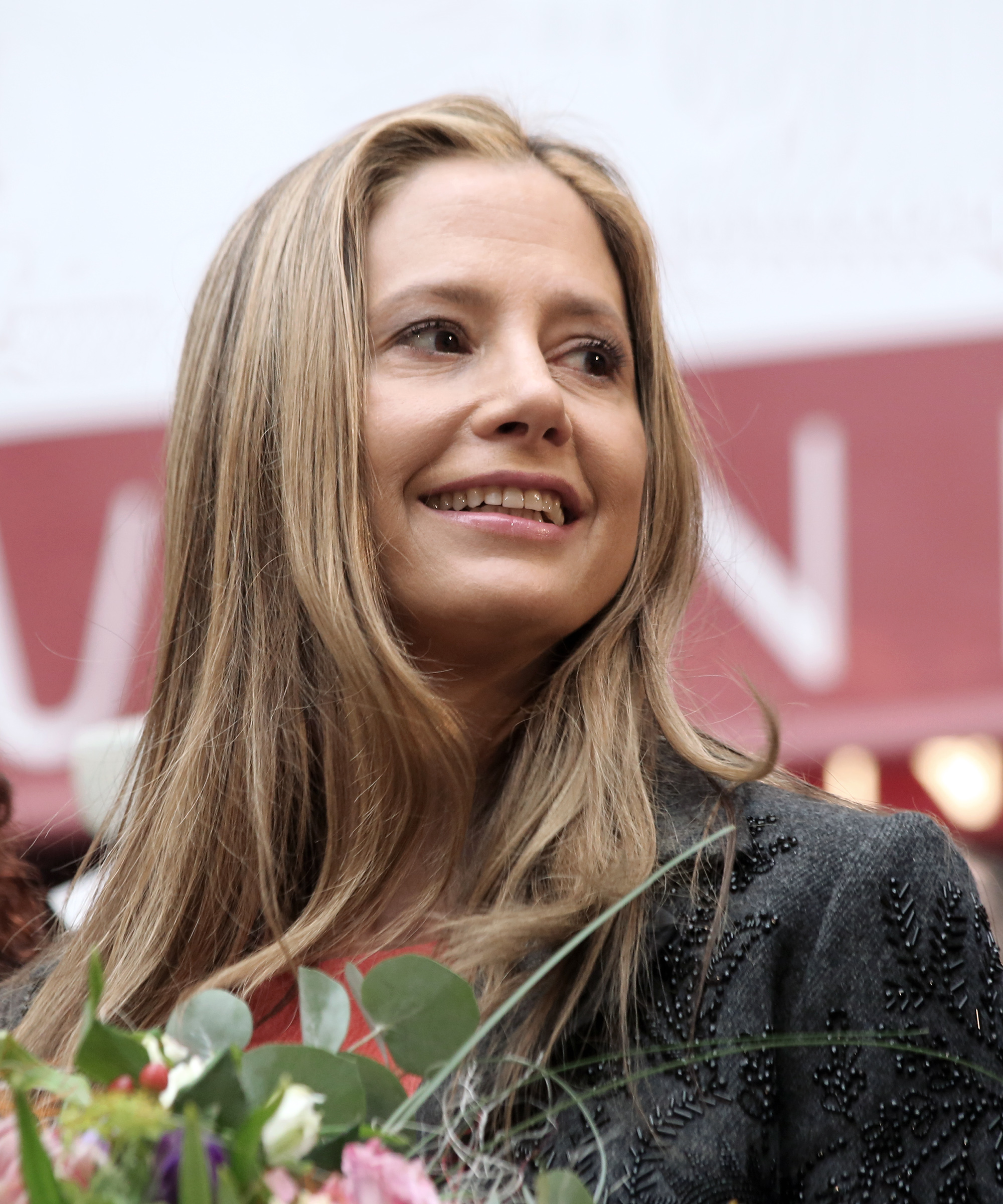 Mira Sorvino, guest of Richard Lugner for the Vienna Opera Ball 2013, at a signature session at Lugner-City in Vienna,Austria).